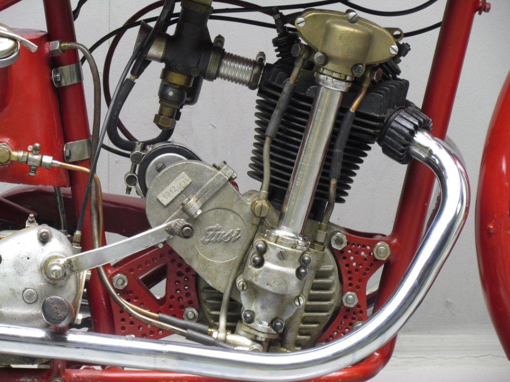 1937 Fusi Sport 250 cc OHC engine (originally: CF engine)